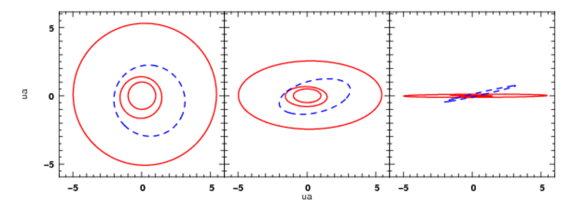 Orbit of asteroid (3) Juno (blue, dashed line) compared to those of Earth, Mars and Jupiter (red, solid ellipses). Viewing angles are 90° (Earth's orbit is view face-on), 30° and 0° (Earth's orbit edge-on).